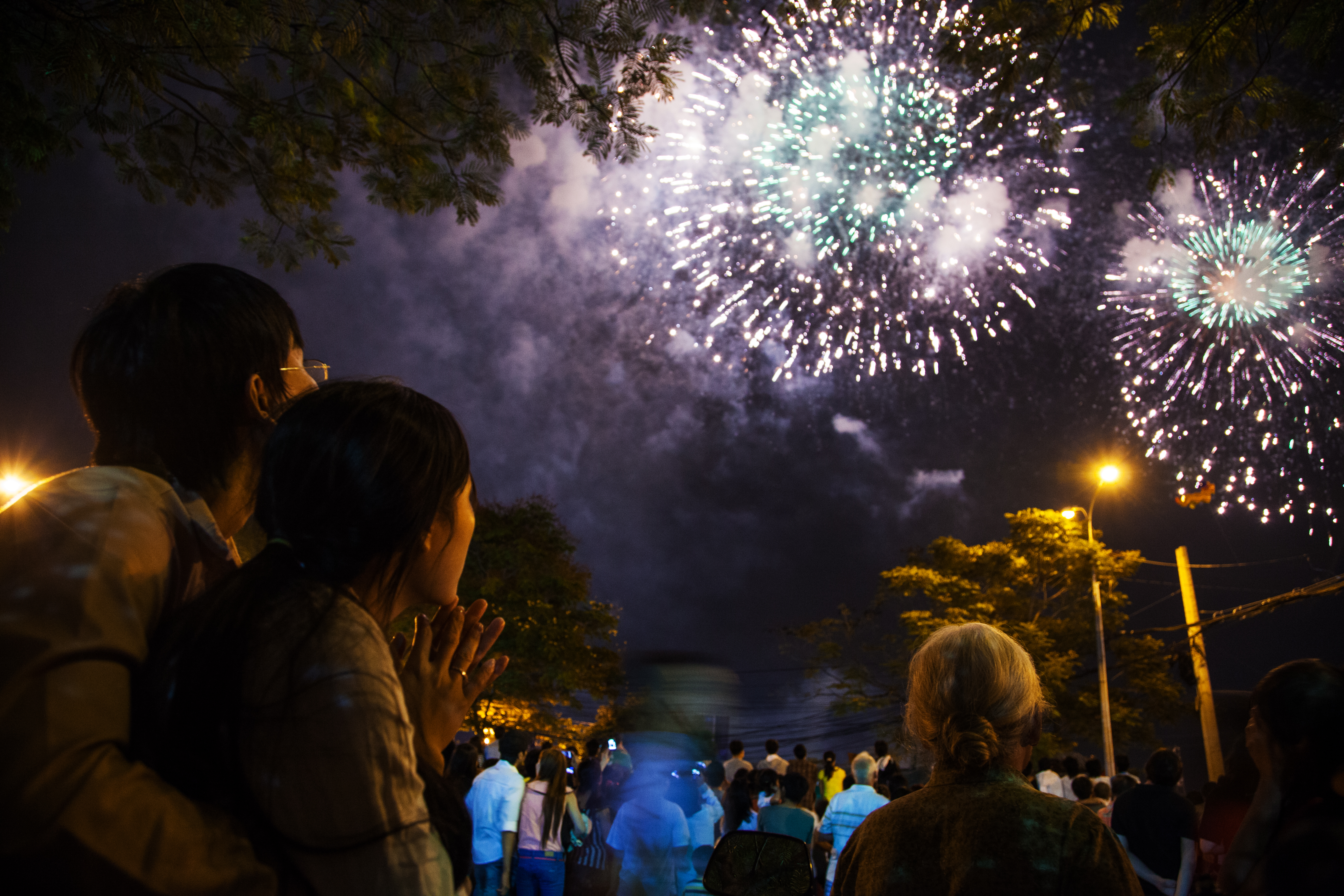 Couple watching fireworks as a part of Chinese New Year celebrations 2012 in Vietnam.